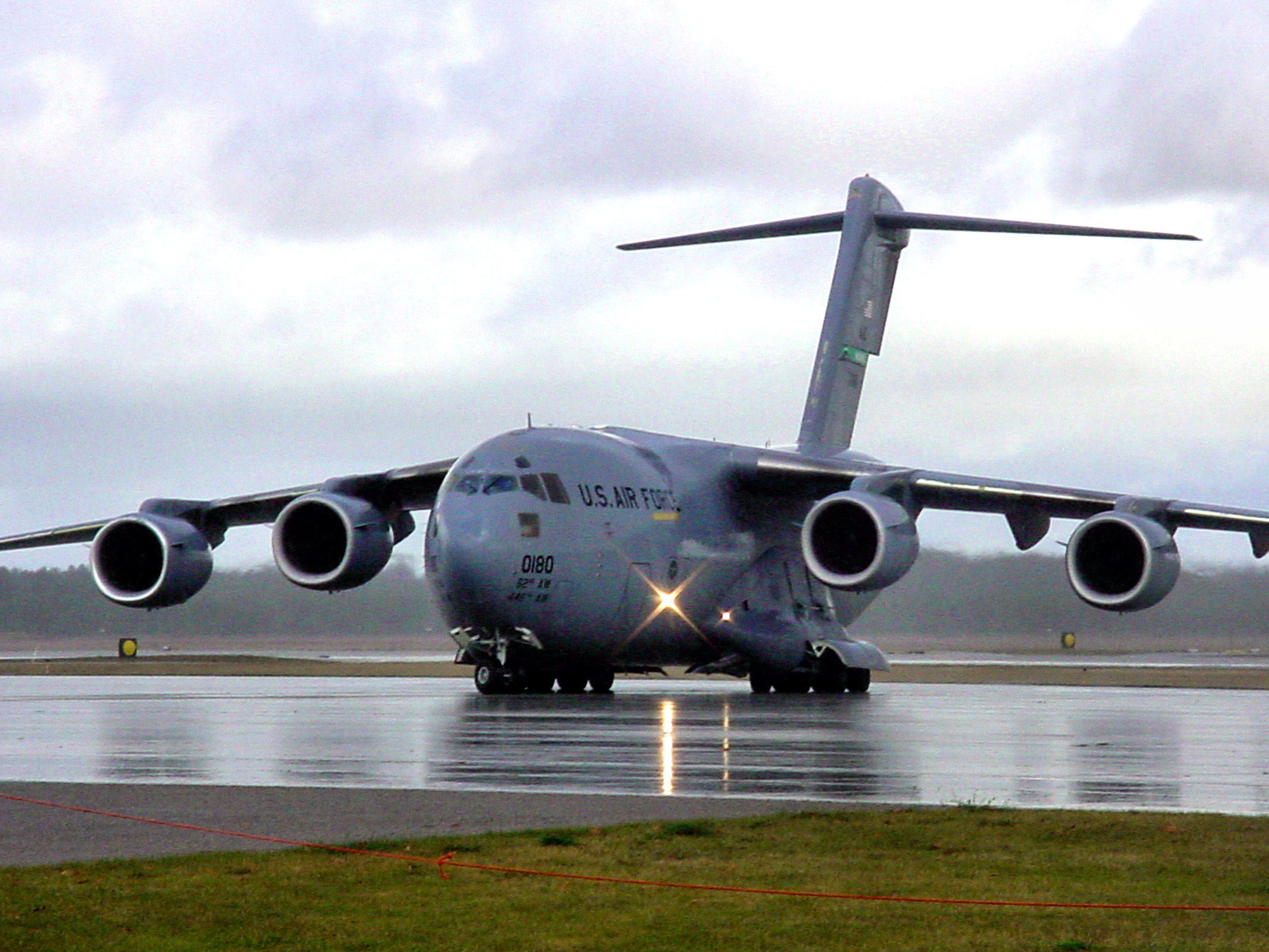 ALPENA, Mich. -- A C-17 Globemaster III taxi's during Crisis Look 2004, an exercise at the Alpena Combat Readiness Training Center here Oct. 16. The aircraft is assigned to the 62nd Airlift Wing at McChord Air Force Base, Wash. (U.S. Air Force photo by Staff Sgt. Scott T. Sturkol)